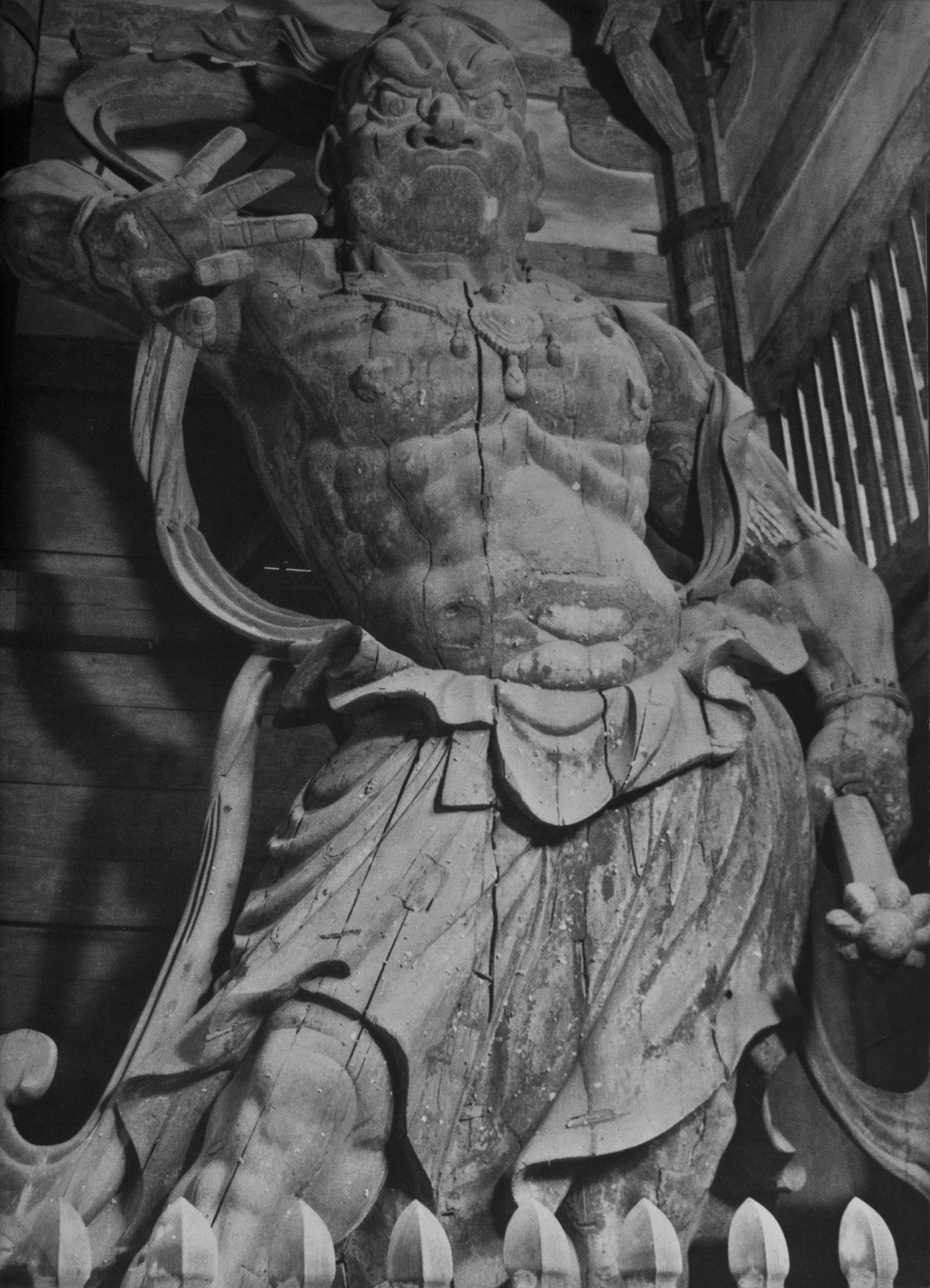 Todaiji, Nara, Japan